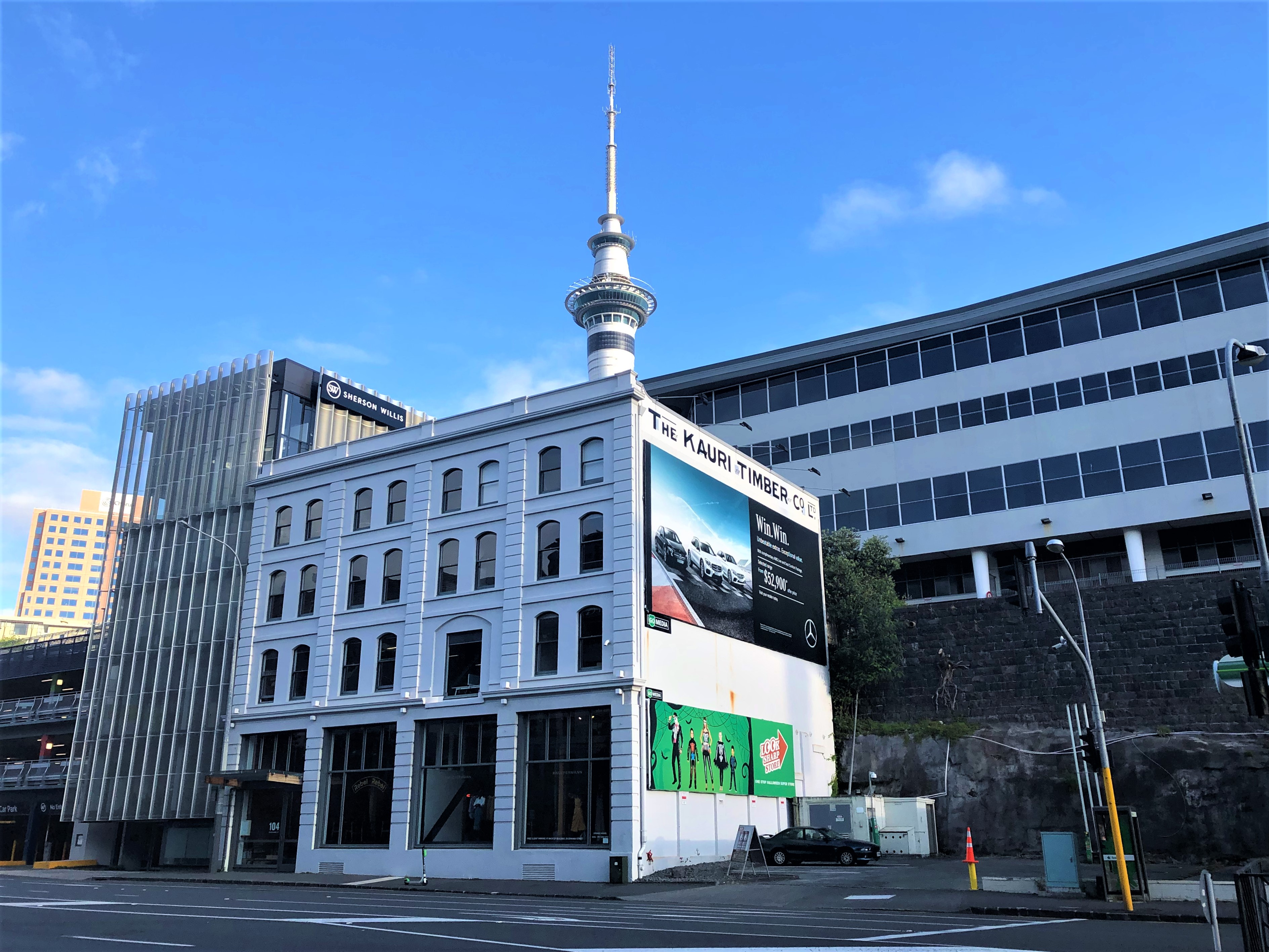 Kauri Timber Co head office 1882